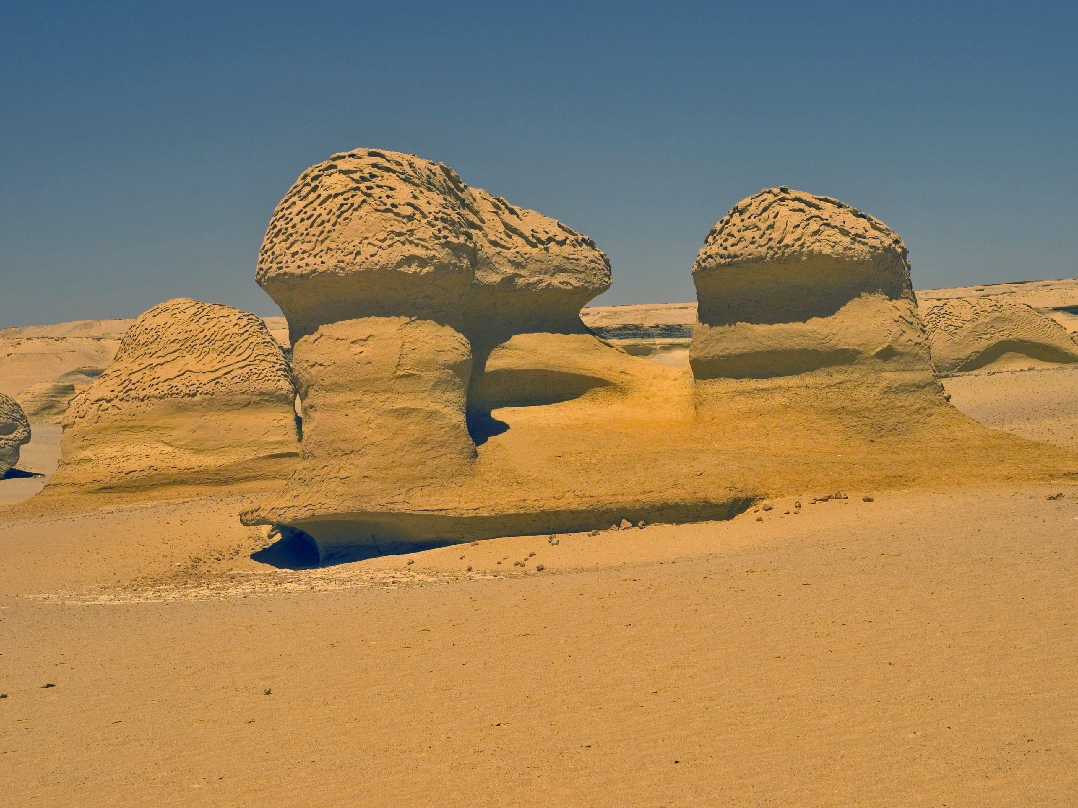 Wadi Al-Hitan is a very important fossil site that firmly establishes the fossil record of whale evolution from land mammals, one of Darwin's major assertions in "The Origin of Species." The wadi hosts skeletons of families of archaic whales in their original geological and geographic setting of the shallow nutrient-rich bay of an early sea of some 30-40 million years ago, in what is now central Egypt. There is no other place in the world yielding archaic whale fossils of such quality in such abundance and concentration -- over 400 cetacian skeletons have been discovered, the most important finds coming between 1985-1995. Many of the sirenians and cetaceans are preserved as virtually complete articulated skeletons which, uniquely, preserve reduced hind limbs, making them intermediate between earlier land mammals and later modern whales. In addition to the whale fossils, numerous other fossils of plant and animal life provide a rich picture of the ecology of the Tethyan Ocean during Eocene time, enabling interpretation of how animals then lived and how they were related to each other. These fossils are the subject of continuing study and are of iconic value for the study of evolutionary transition, and make the site vitally important as a niche in Earth's natural history.